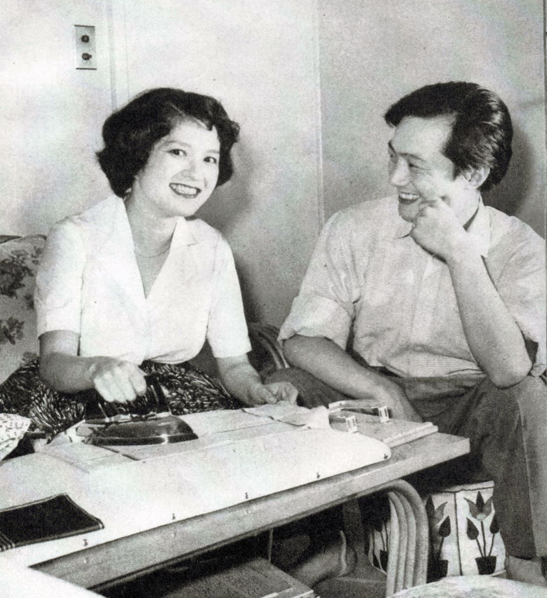 Hiroshi Teshigahara(Right) and Toshiko Kobayashi(Left).